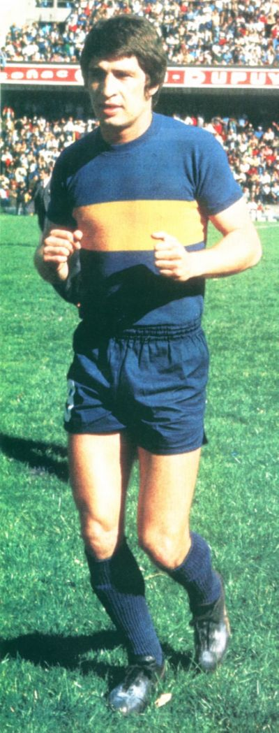 Argentine forward Carlos García Cambón during his tenure on Boca Juniors